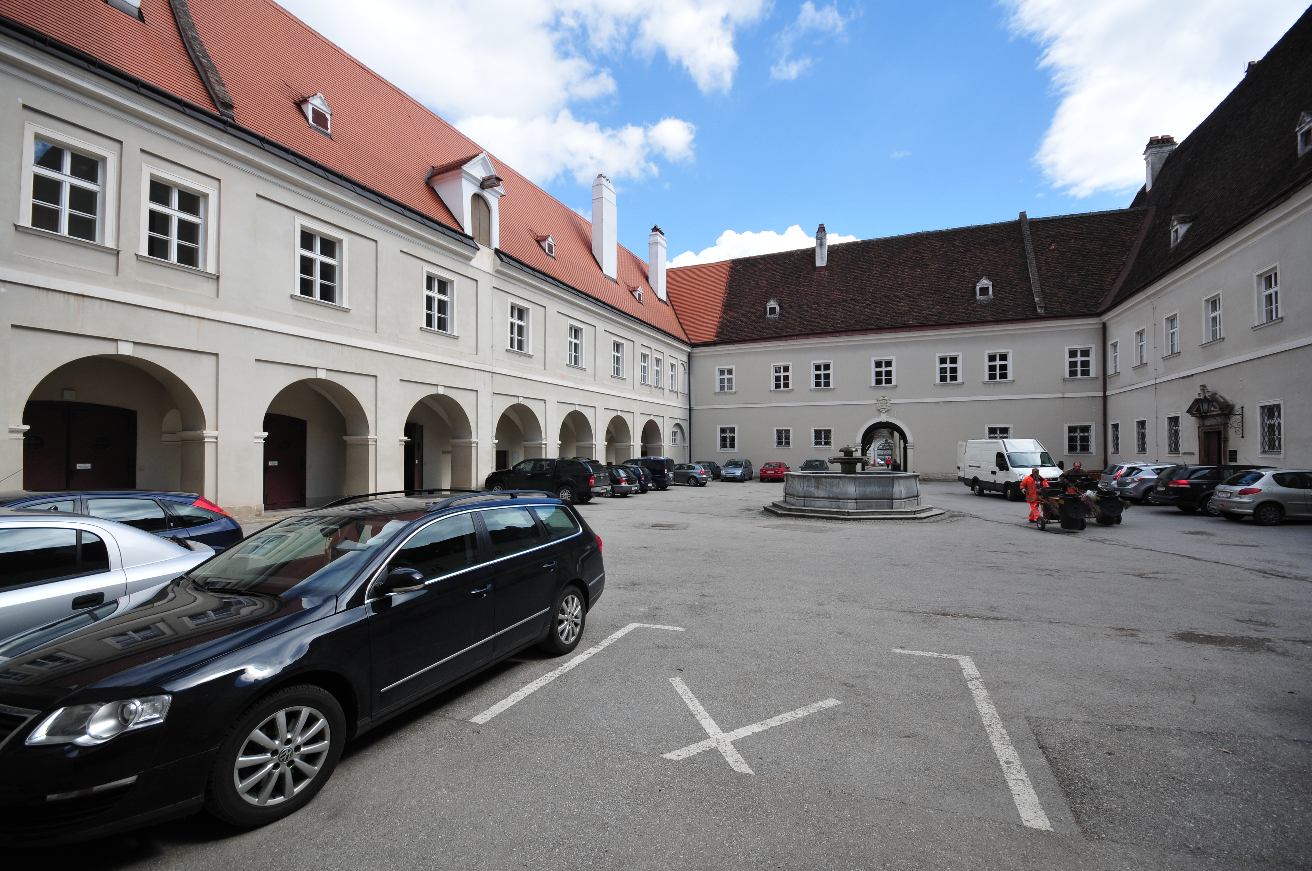 St. Pölten, Austria Fotowanderung St. Pölten 13. April 2013 in St. Pölten, Niederösterreich 50mm • Allgemeines • Bahnhof • Domplatz • Fahrräder • Landhausviertel • Rathausplatz